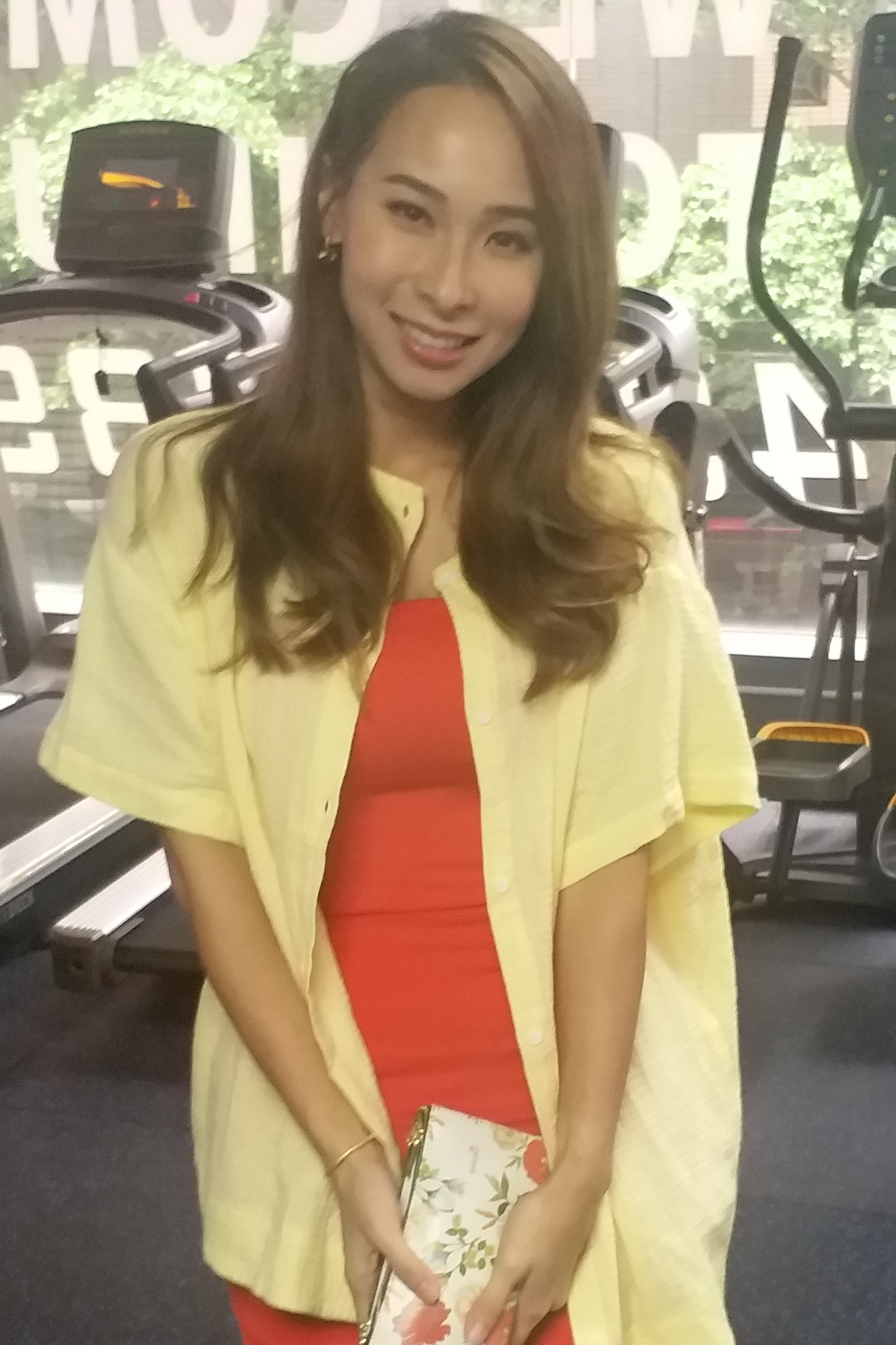 Lucy Li